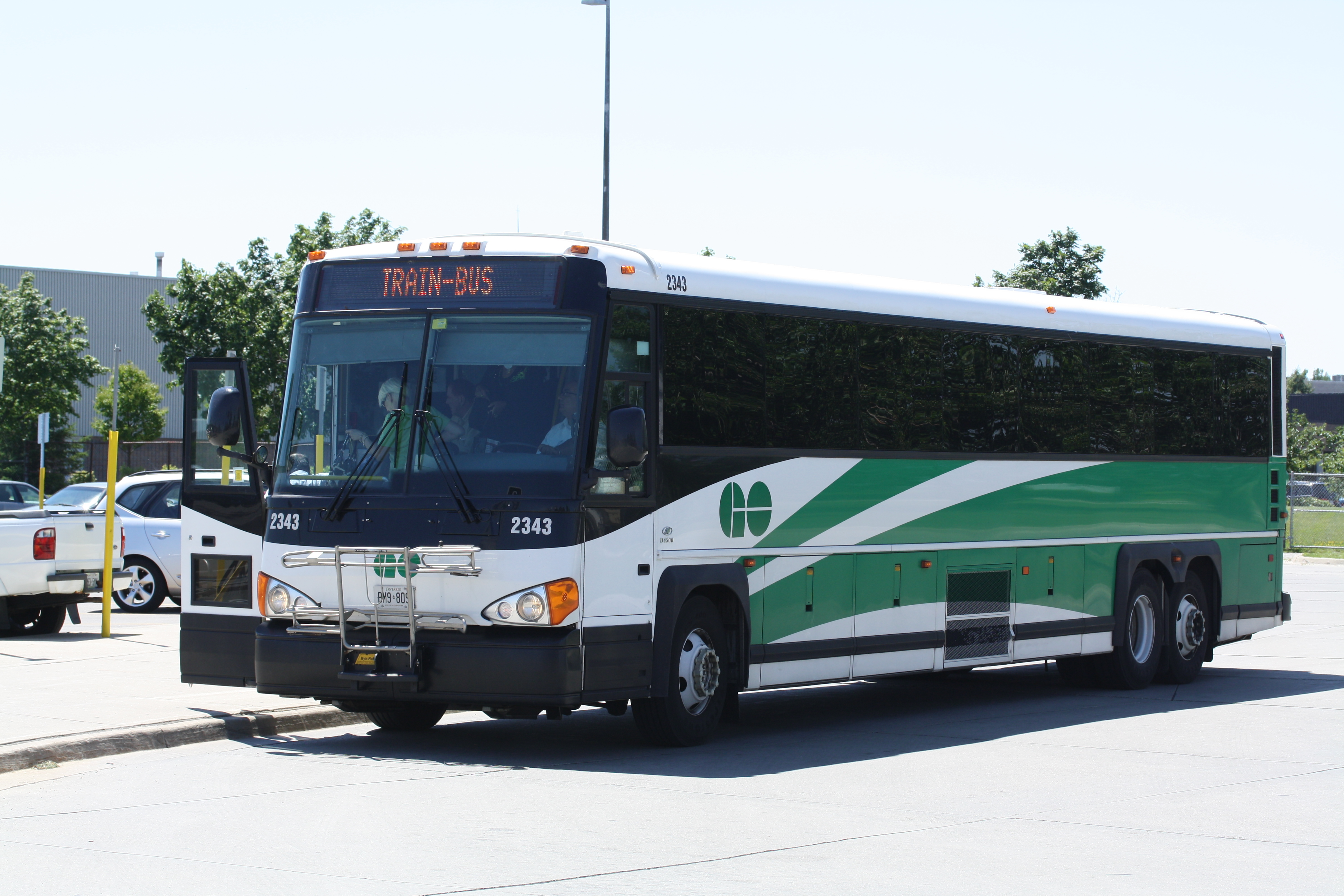 GO Transit Milton TRAIN BUS at Meadowvale GO Station